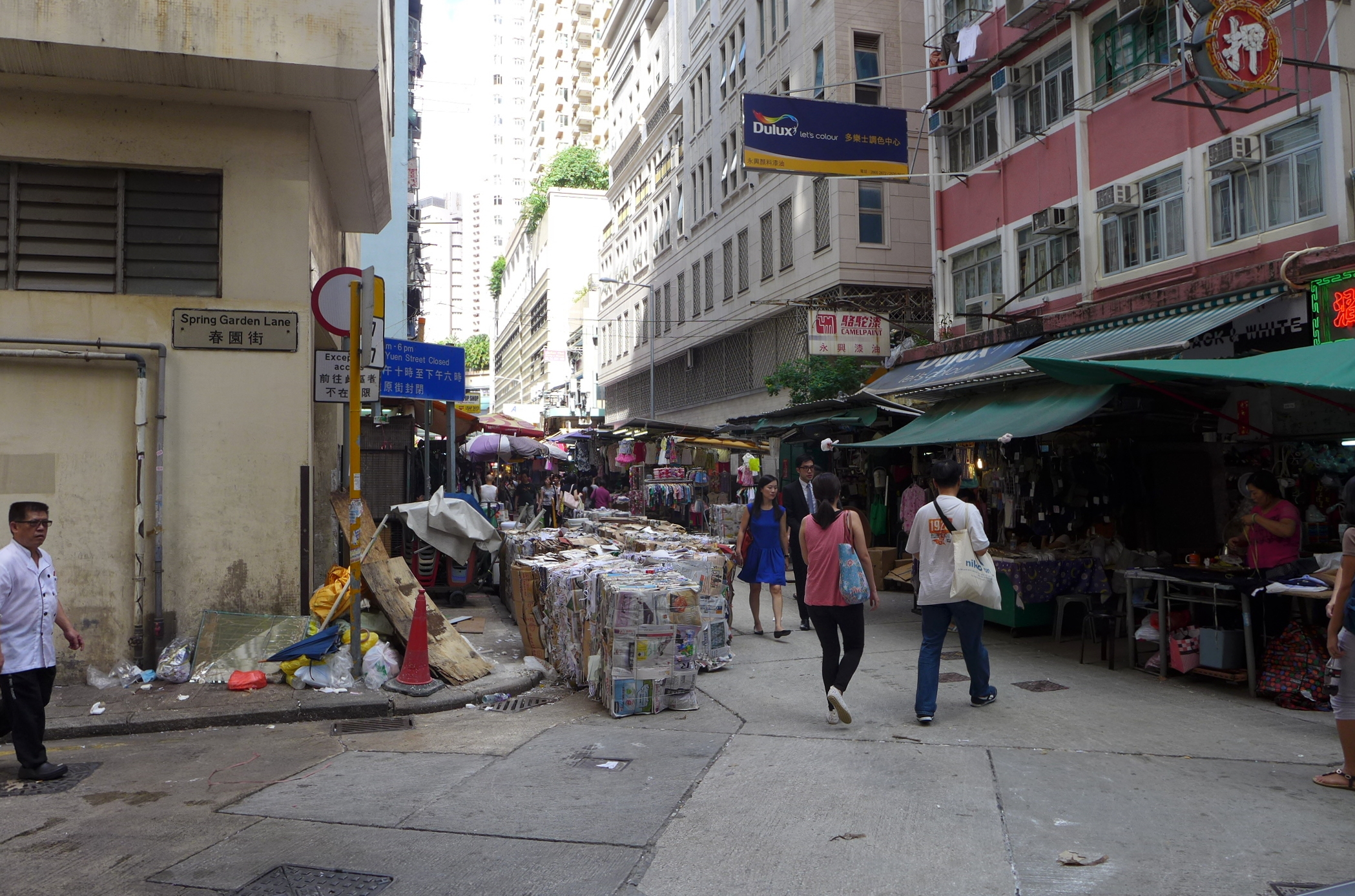 Cross Street